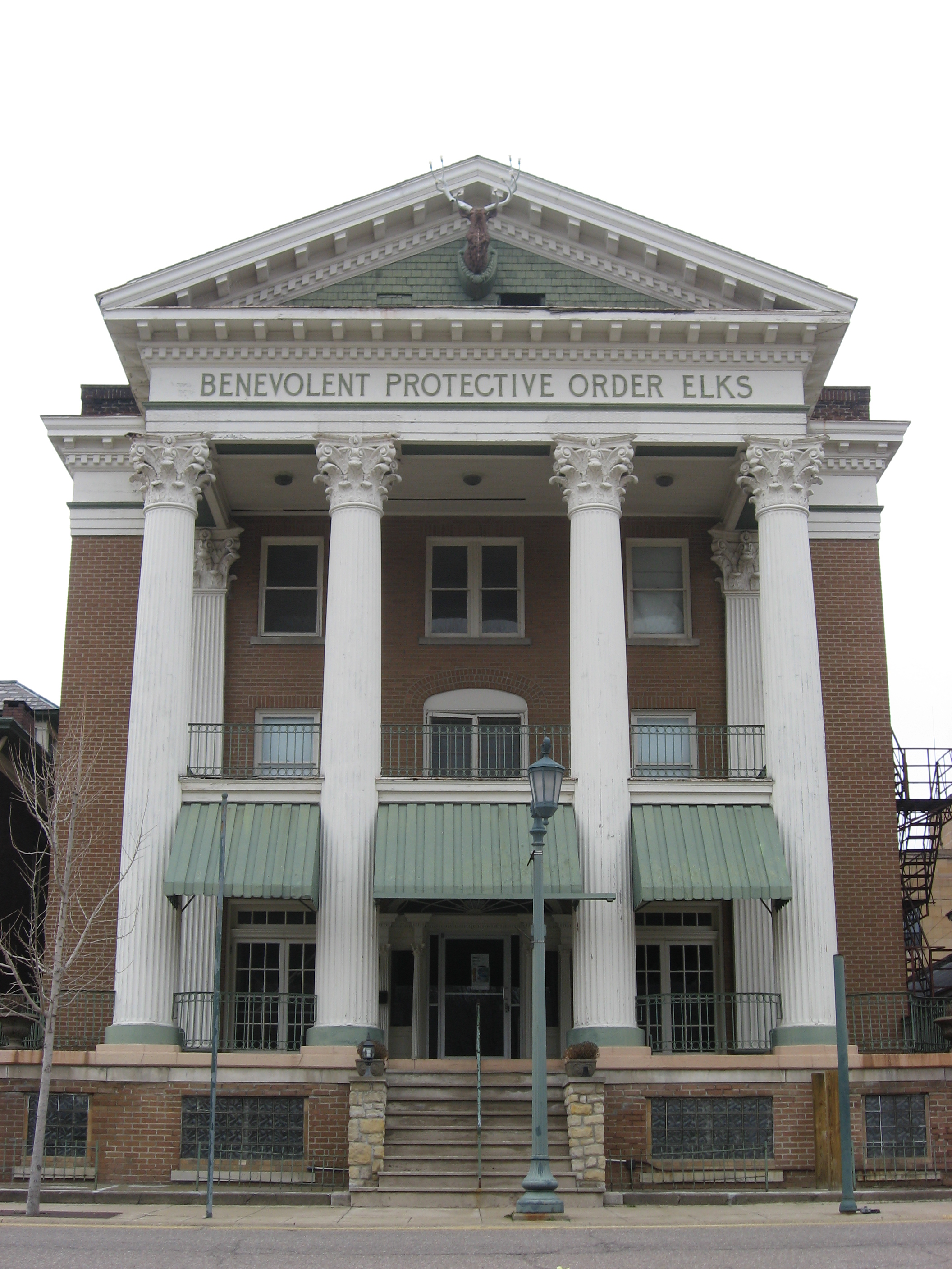 Entrance to the Elks Club, located at 139 West Fifth Street in downtown East Liverpool, Ohio, United States. Built in 1916, the lodge is listed on the National Register of Historic Places.